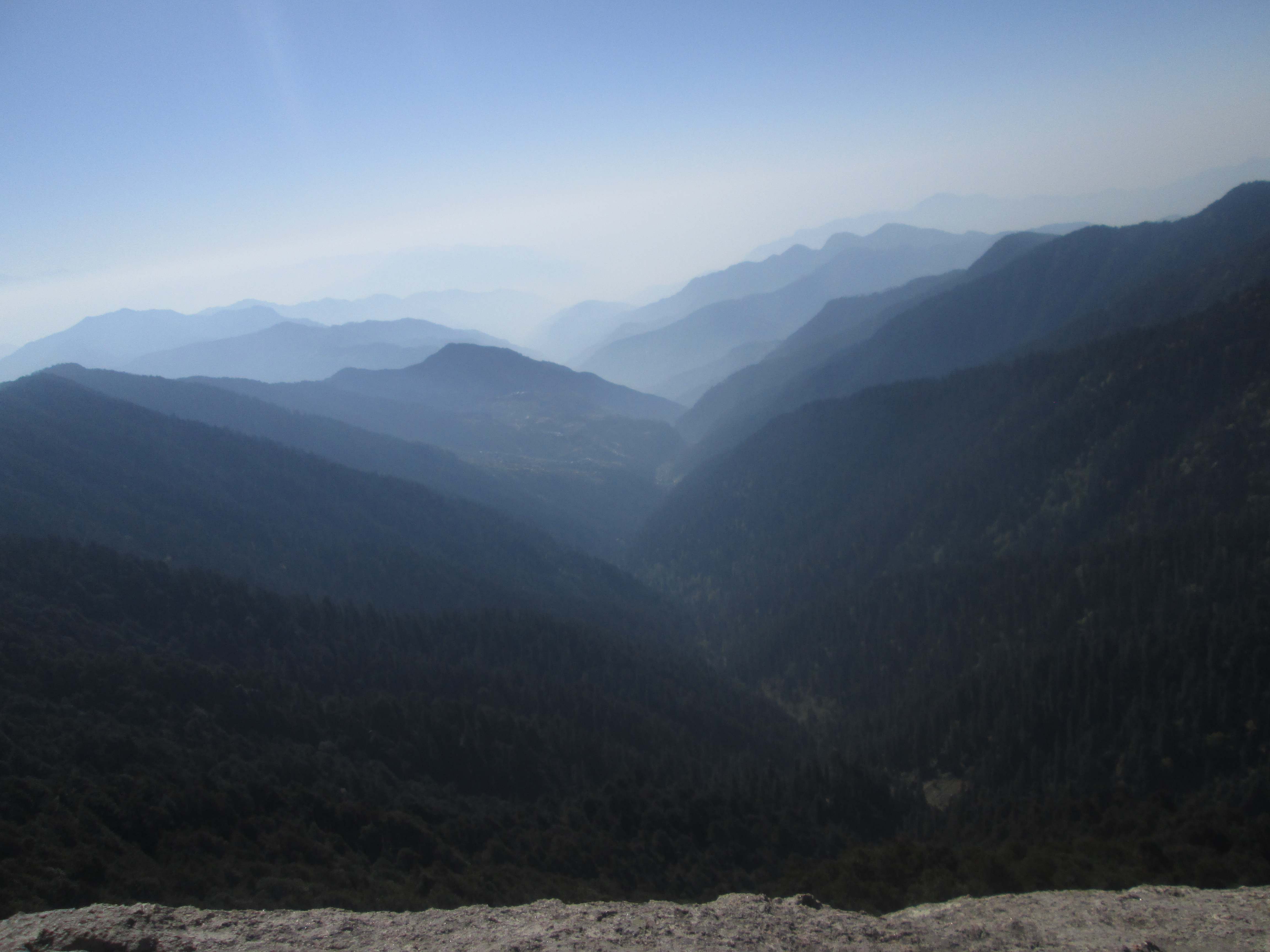 At the level of appx 12000 ft a view from choru tibba where shiva is known as shirgul maharaj which holds within variety of flora and fauna."Heaven lies on earth" a perfect example for the phrase.